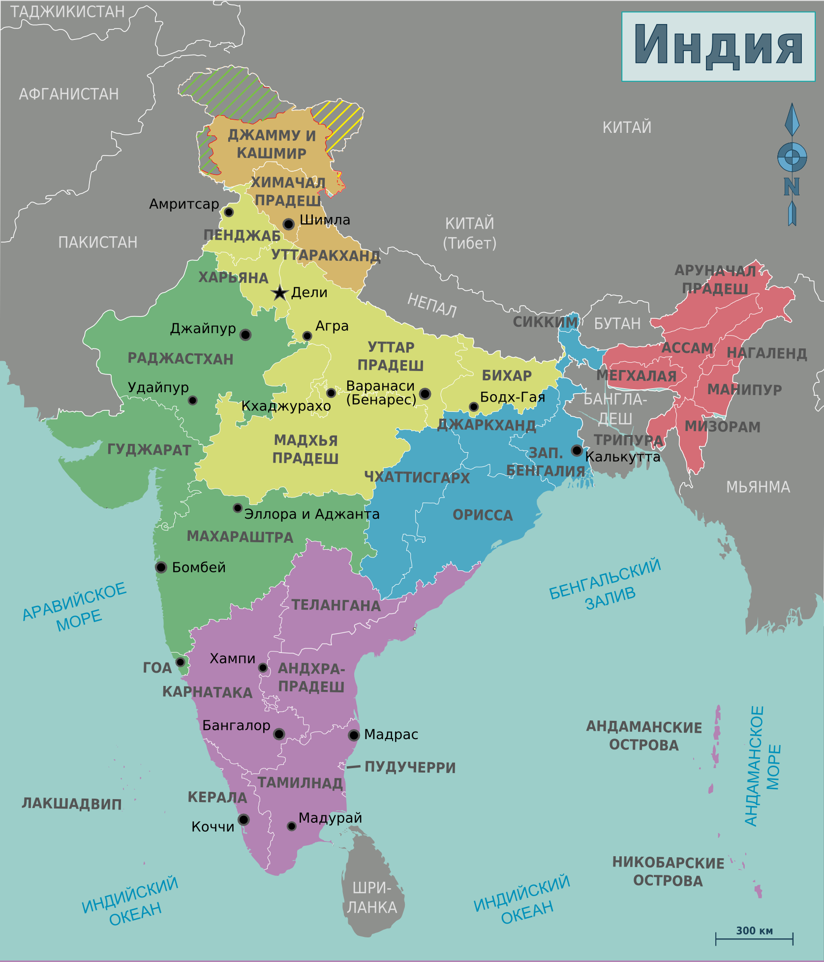 Map of India (ru). A map of India's regions, states and metropolis' (Russian version), India.